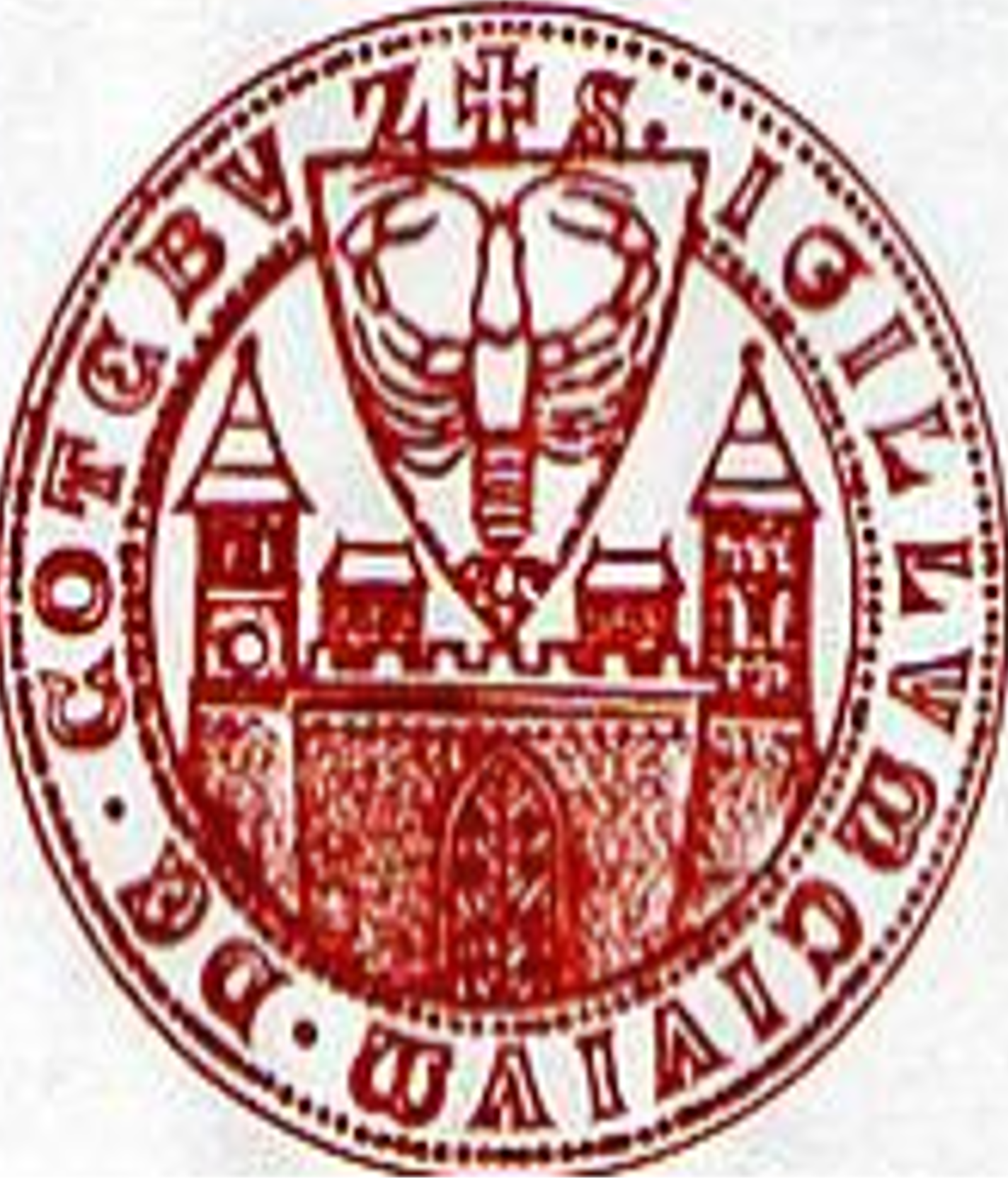 seal of the city of Cottbus